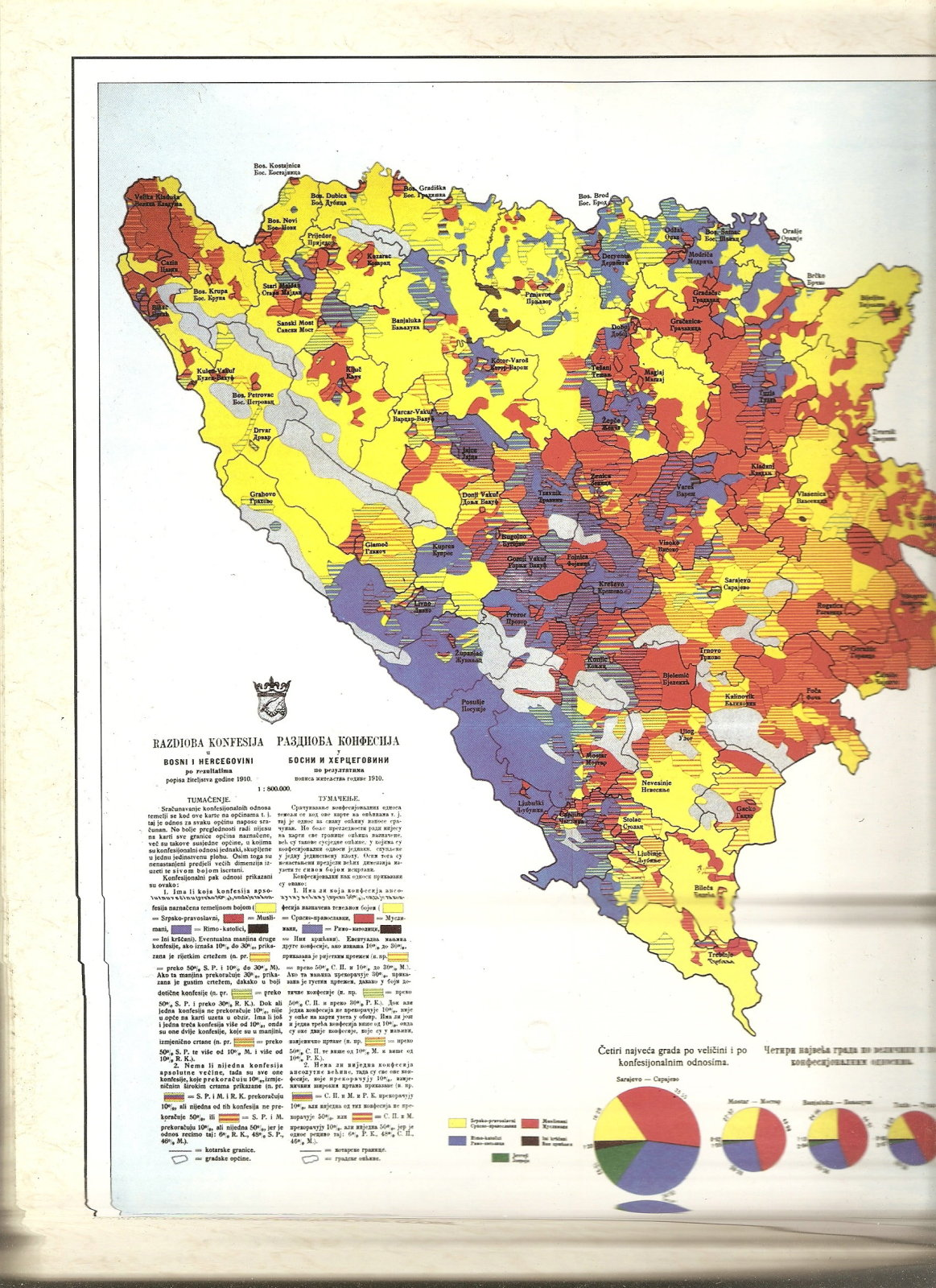 This an ethnic map of Bosnia and Herzegovina from 1910. Serbs are shown as yellow, Bosniaks as Red, Croats as Purple, Jews as Green, and other groups as brown.